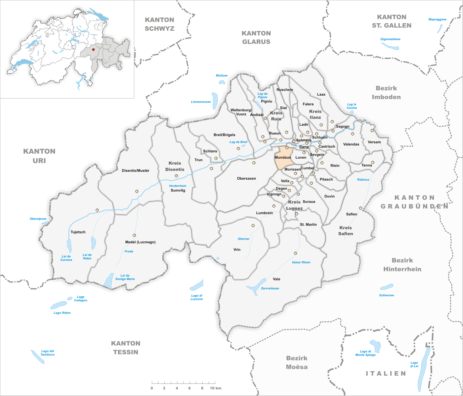 Municipality Mundaun